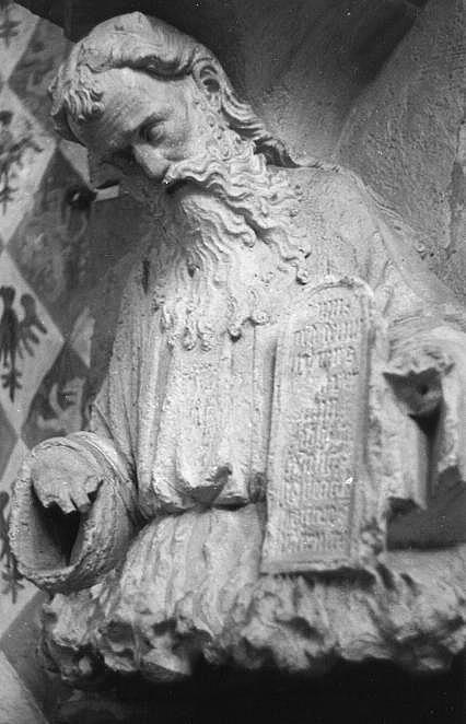 Toruń, Ss. Johns church, gothic bust of Moses, ca. 1390, Master of Beautiful Madonna of Toruń